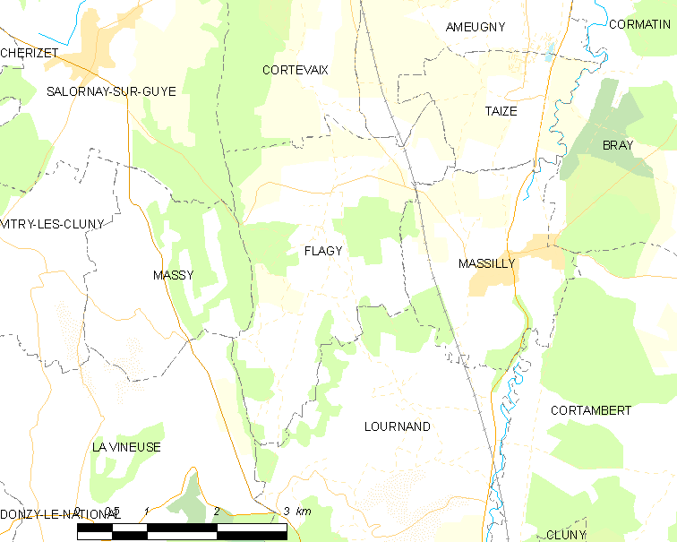 Map of French municipality